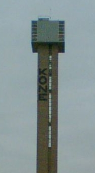 Kone elevator testing tower in Hyvinkää, Finland